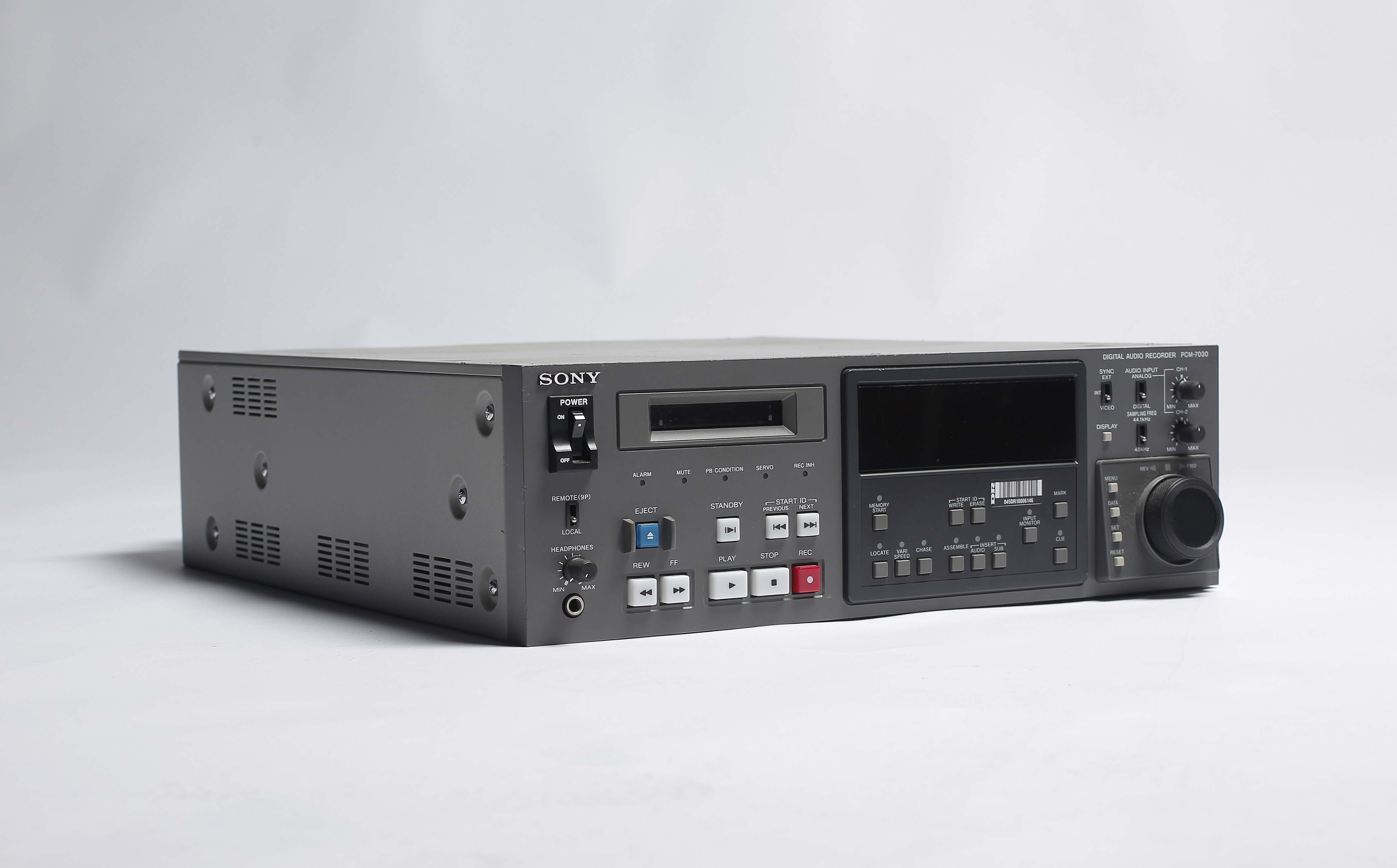 Sony digital audio recorder PCM-7030 Danmarks Radios arkiv af DRs Kulturarvsprojekt / The archive of the Danish Broadcasting Corporation Photos must be credited "DRs Kulturarvsprojekt"